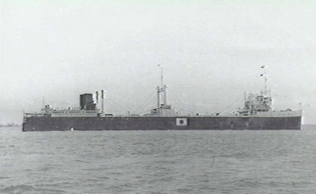 Japanese whaling factory Tonan Maru No.3, with national flag painted on her side to indicate her neutral status.